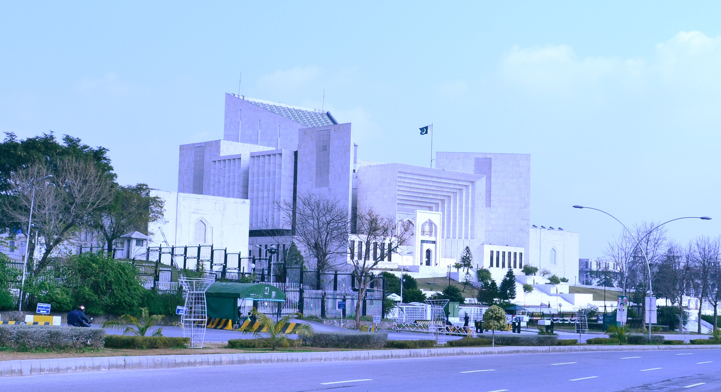 Supreme Court of Pakistan